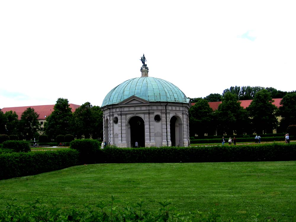 Hofgarten in Munich, Bavaria; Temple of Diana